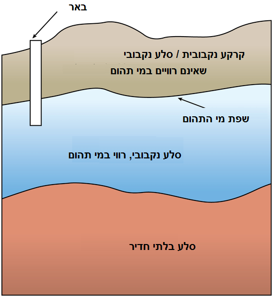 Groundwater is found beneath the solid surface. hebrew script.